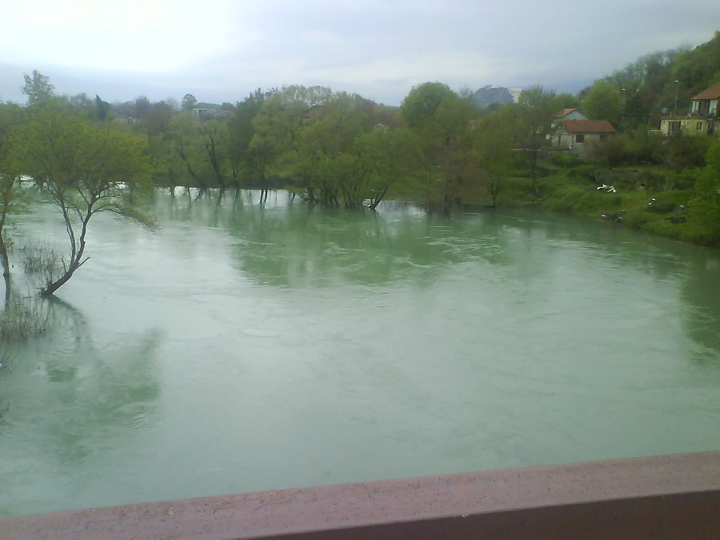 ...the river Zeta-Spuz-Montenegro-2012